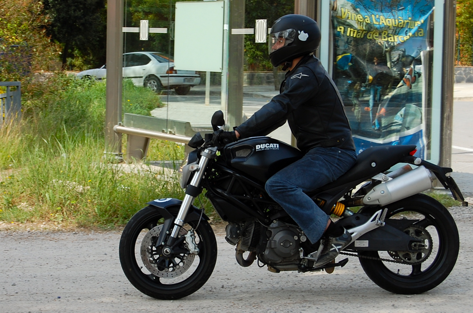 Ducati Monster 696. Ducati Tour 09